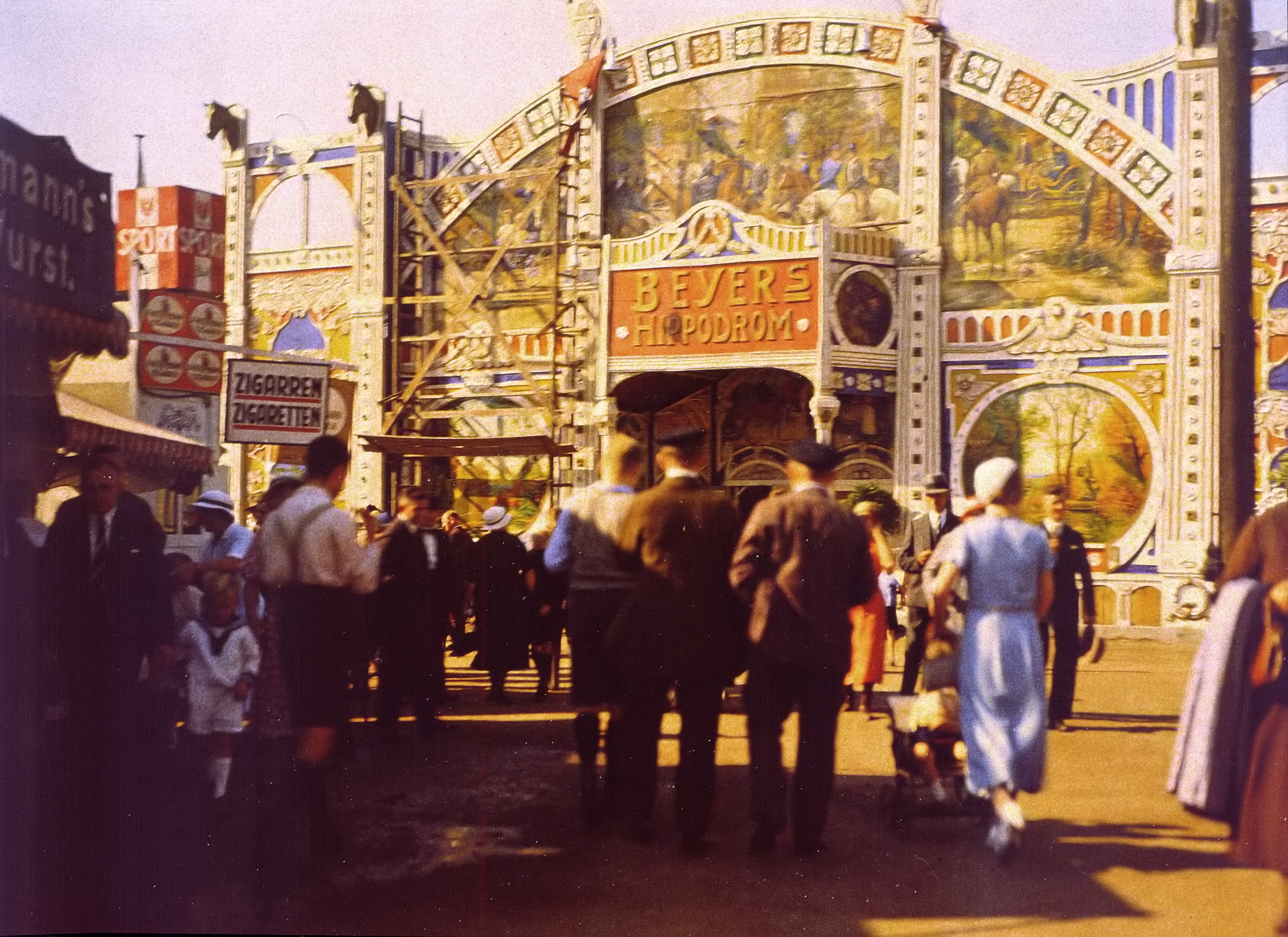 Agfa-Farbenplatte (9 cm by 12 cm) glass plate photograph of Beyer's Hippodrome taken in Leipzig little fair (klein Messe) September 1934 by Dr Kurt von Holleben.